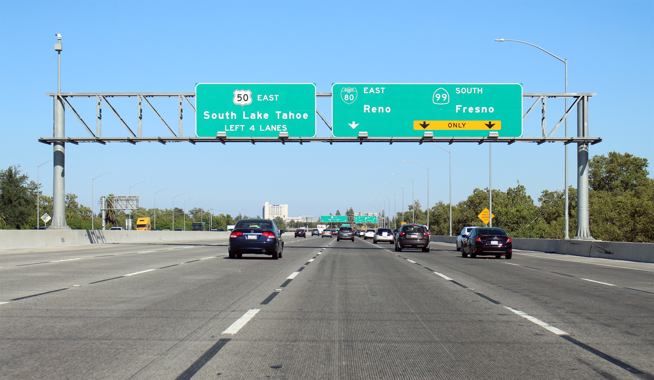 Eastbound U.S. Route 50 in Sacramento, California. This is on the elevated section in downtown Sacramento approaching the interchange with Business Route 80 northbound and California State Route 99 southbound. Photographed by user Coolcaesar on July 3, 2020.